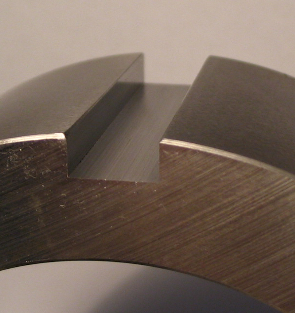 A ground keyway